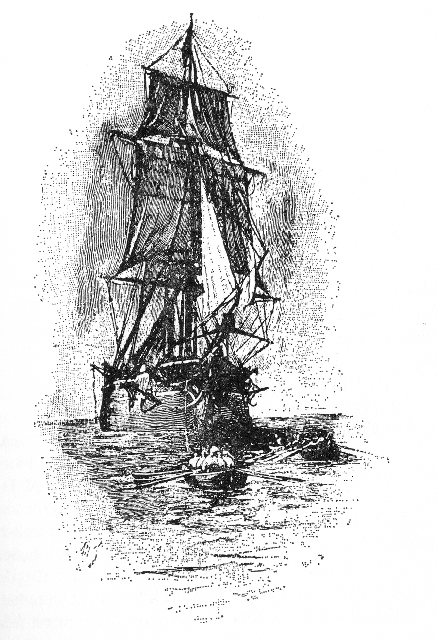 Boats pulling the Hispanola - Illustration by Walter Paget for the 1899 edition of "Treasure Island" by Robert Louis Stevenson